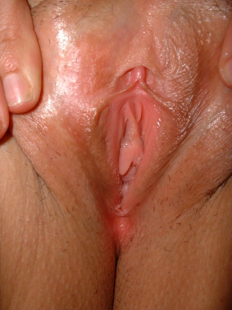 23 years old woman's vulva, showing major and minor labia, clitoris and vaginal opening.